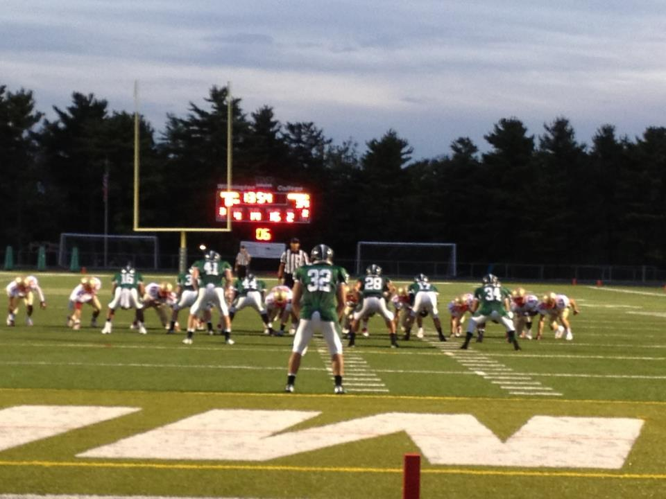 The Quakers take on the Otterbein Cardinals during the 2012 season at home.